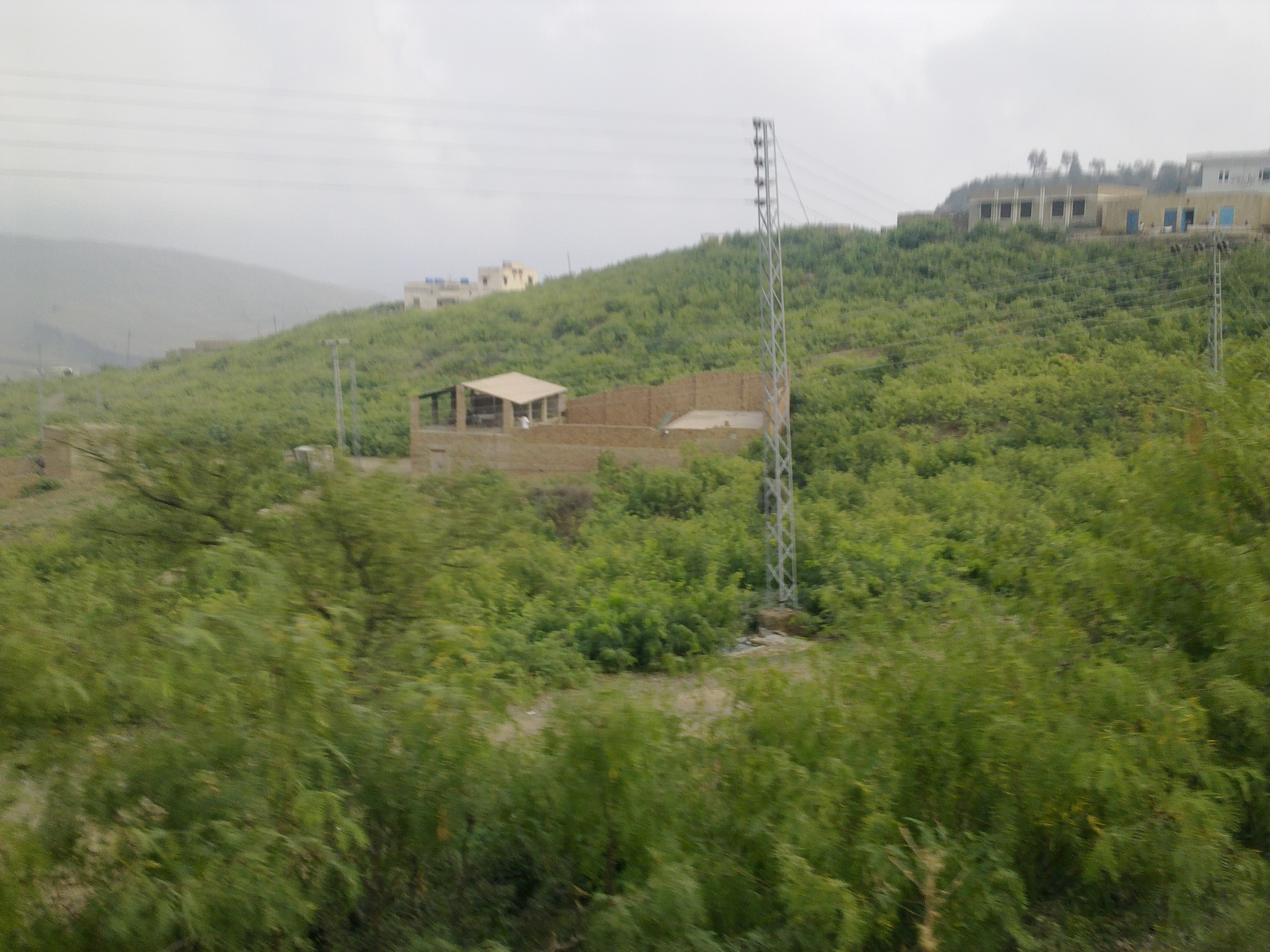 Fort Munro,D.G.Khan